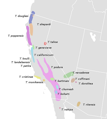 Distribution map of Timema species in North America